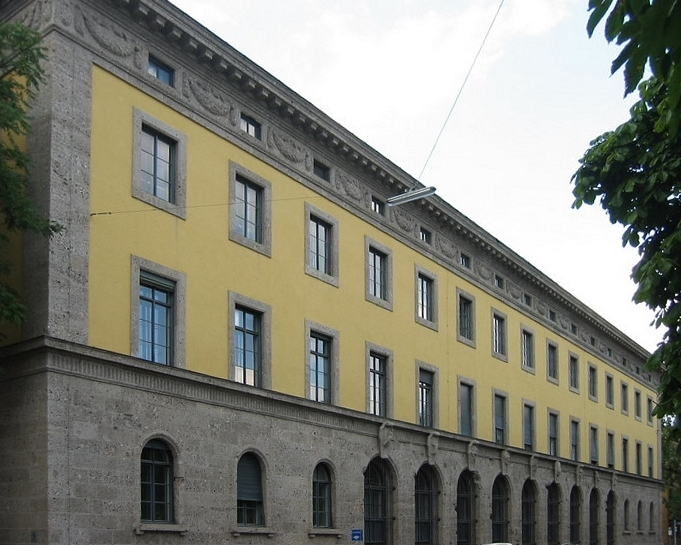 TU-Gebäude von German Bestelmeyer